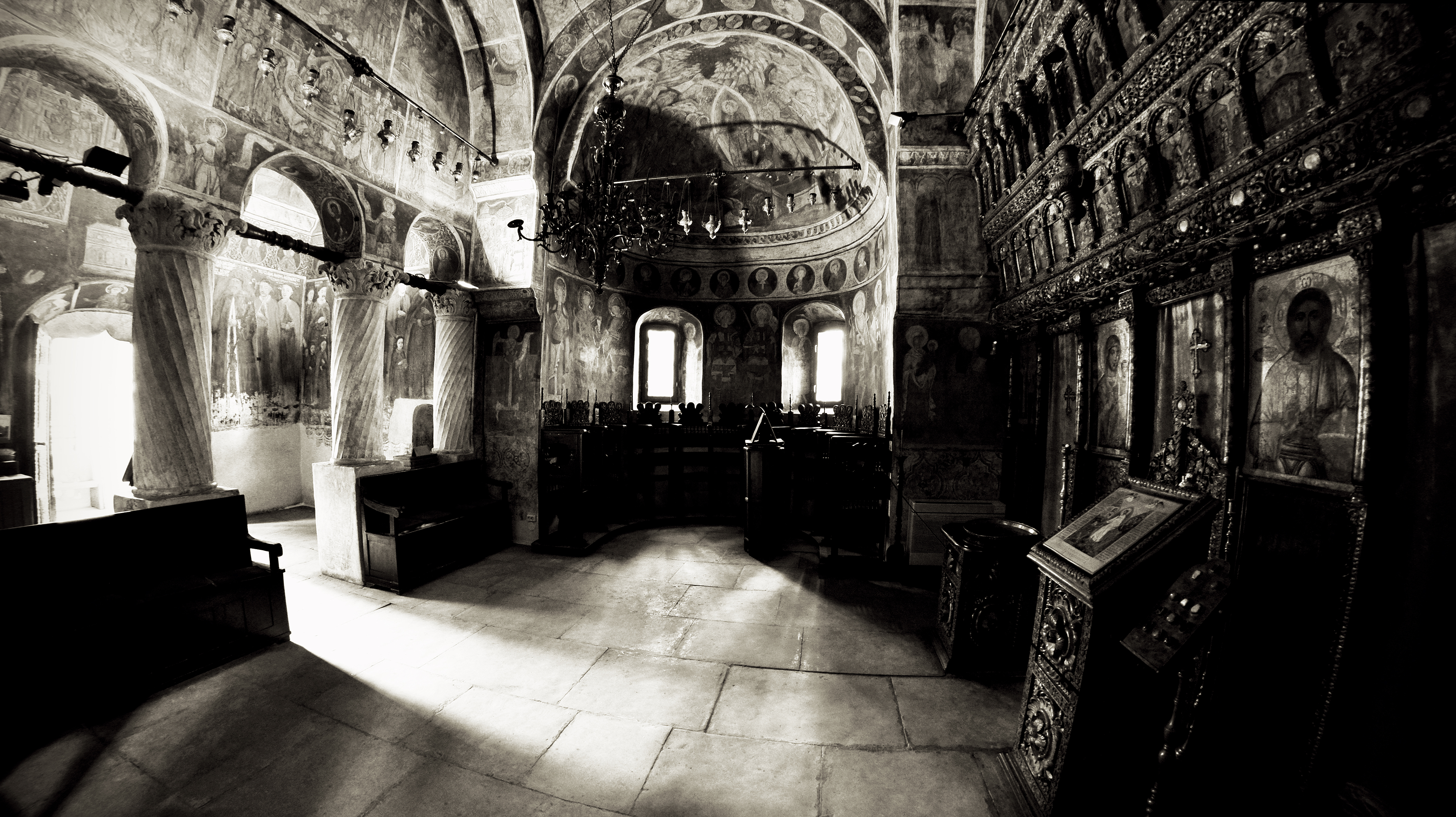 Stavropoleos Monastery, Bucharest, Romania